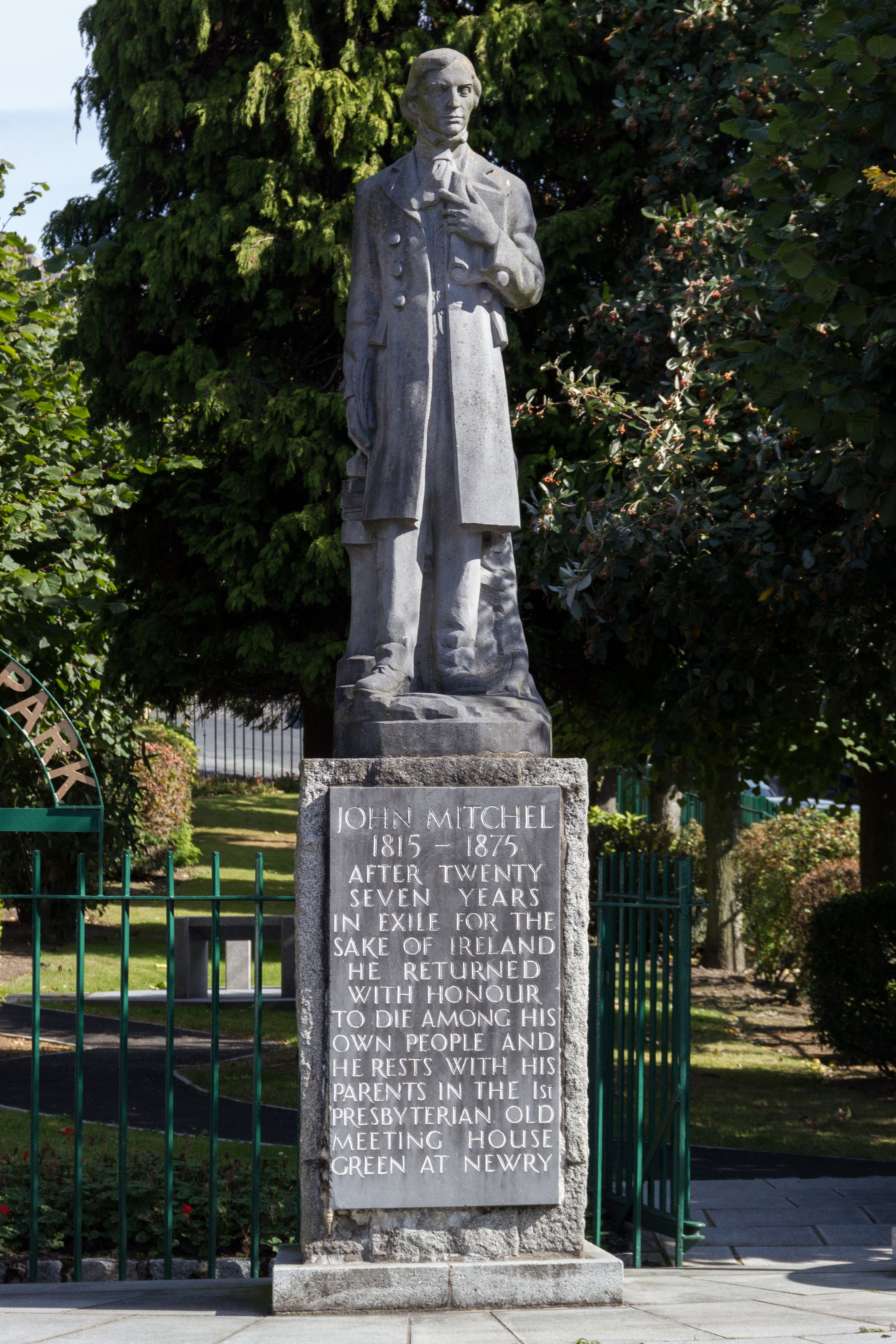 Statue of John Mitchel in Newry, Northern Ireland inscribed "John Mitchel 1815-1875 After twenty seven years in the exile for the sake of Ireland he returned with honor to die among his own people and he rests with his parents in the 1st presbyterian old meeting house green at Newry."